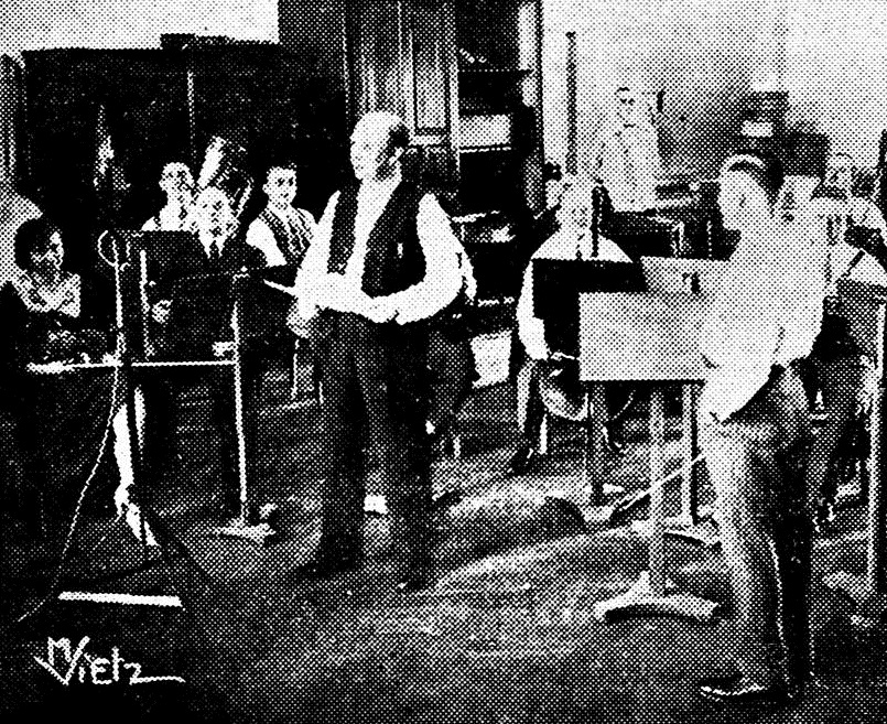 The Finnish singer Theodor Weissman (1891-1966) during a recording session for the Homocord in Berlin in june 1929. To the right stands the Homocord Orchestra's conductor Hans Doll.